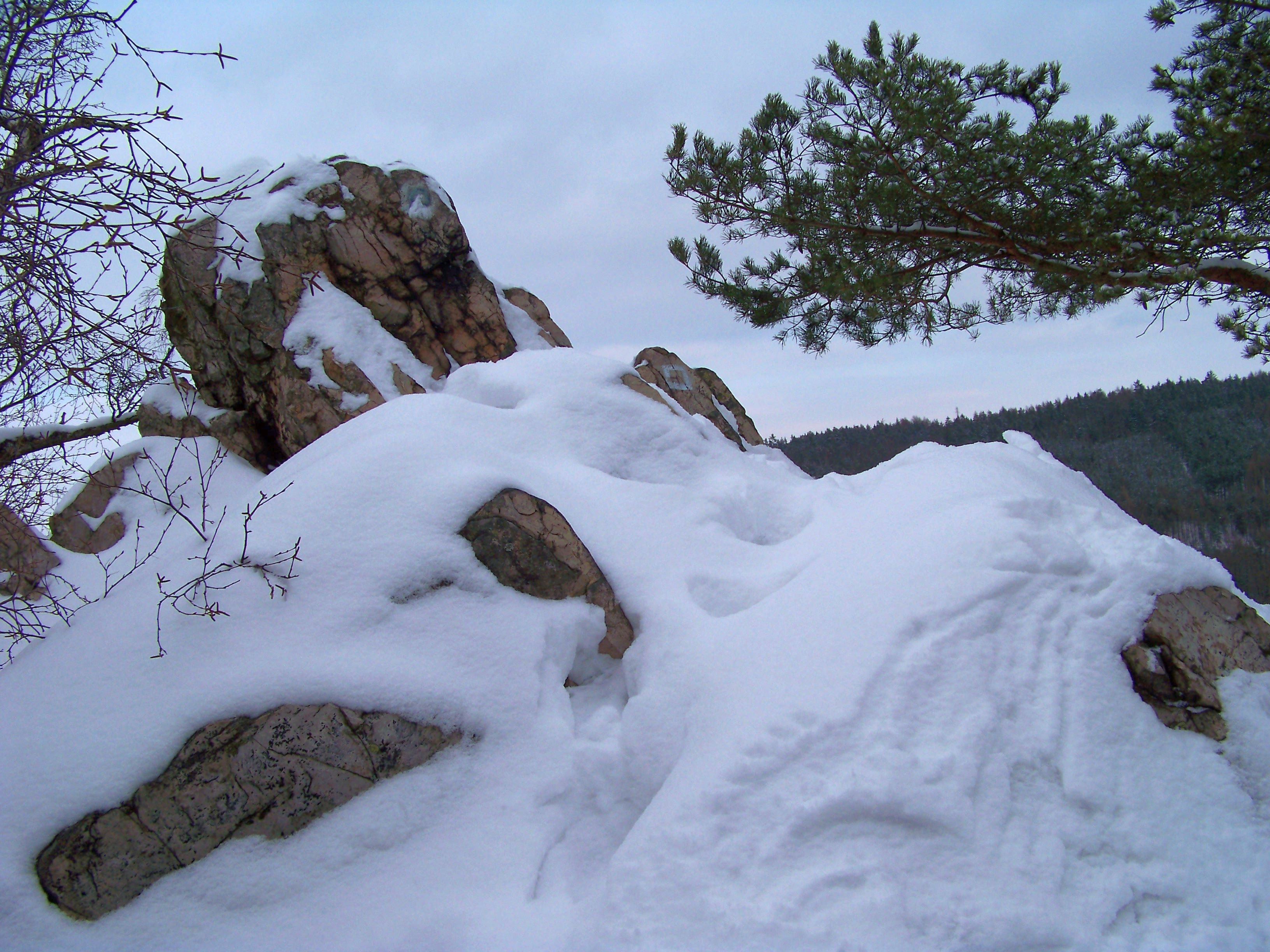 Řevnice, Prague-West District, Central Bohemian Region, the Czech Republic. Babka Hill.